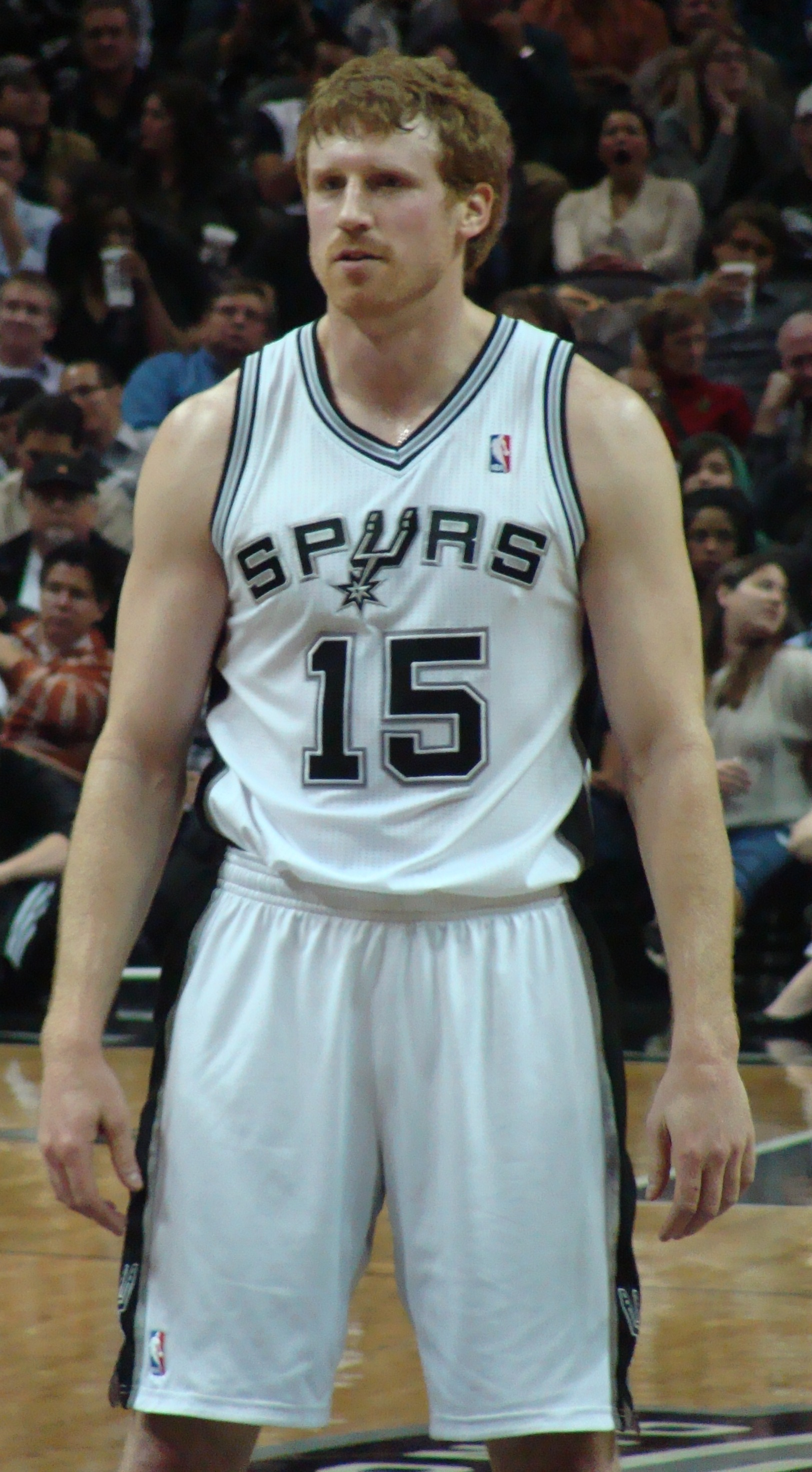 Matt Bonner of the San Antonio Spurs, during a free throw at the Spurs-Nuggets match on 12-22-2010 in San Antonio, TX.